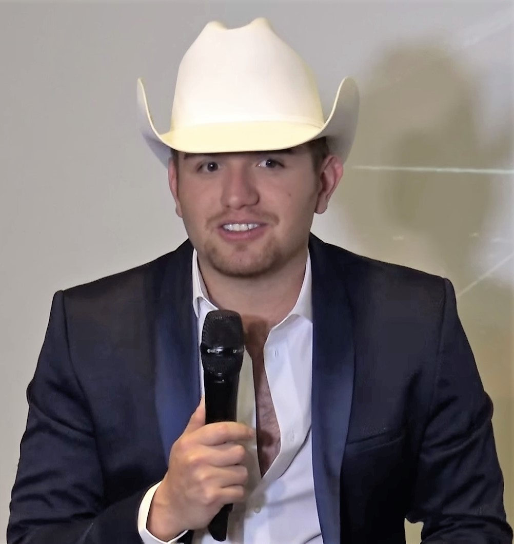 El Dasa cuenta cómo pasó de cantante a también actor